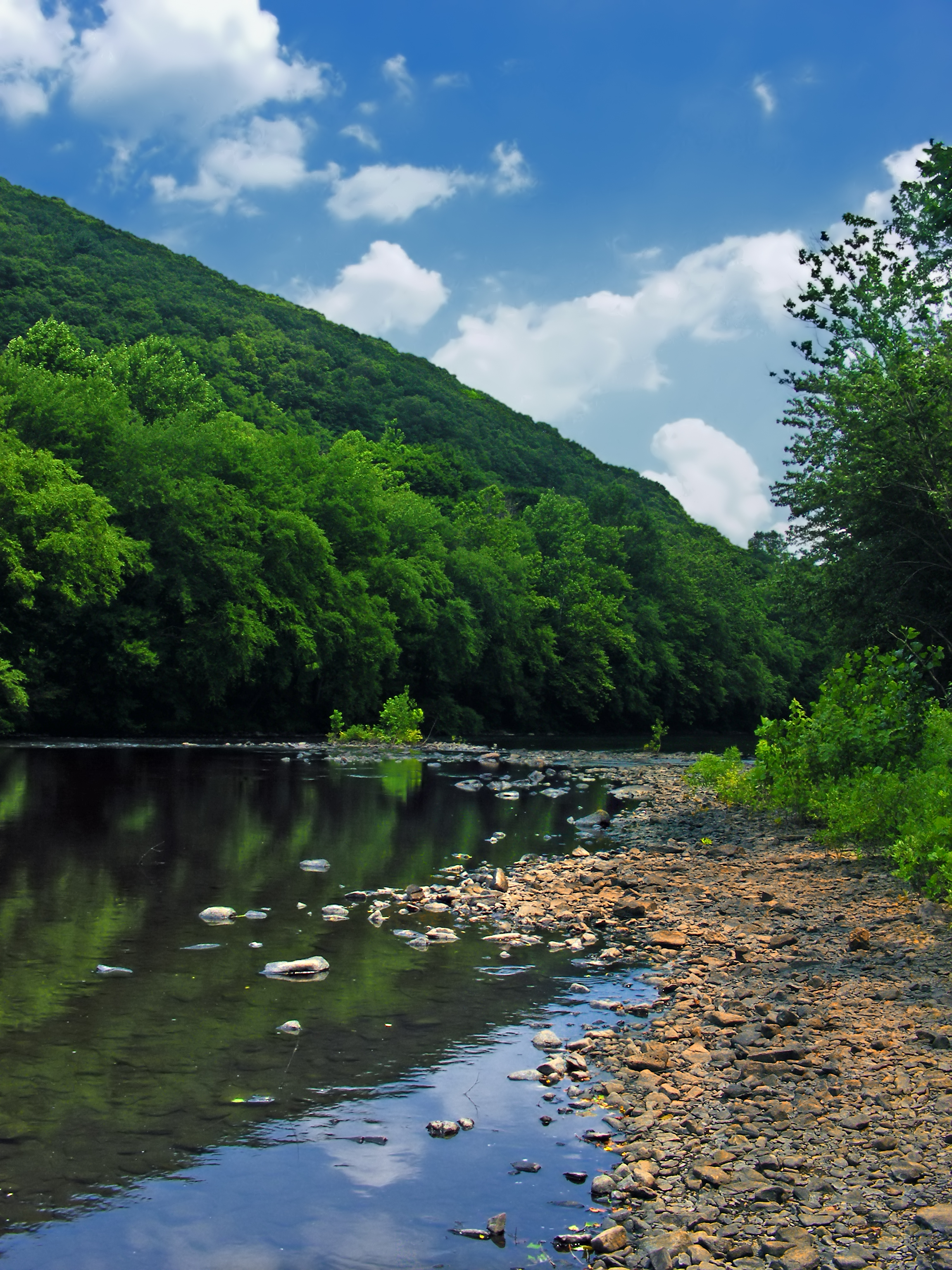 Schuylkill River, West Brunswick Township, Schuylkill County, as seen from the Bartram Trail.